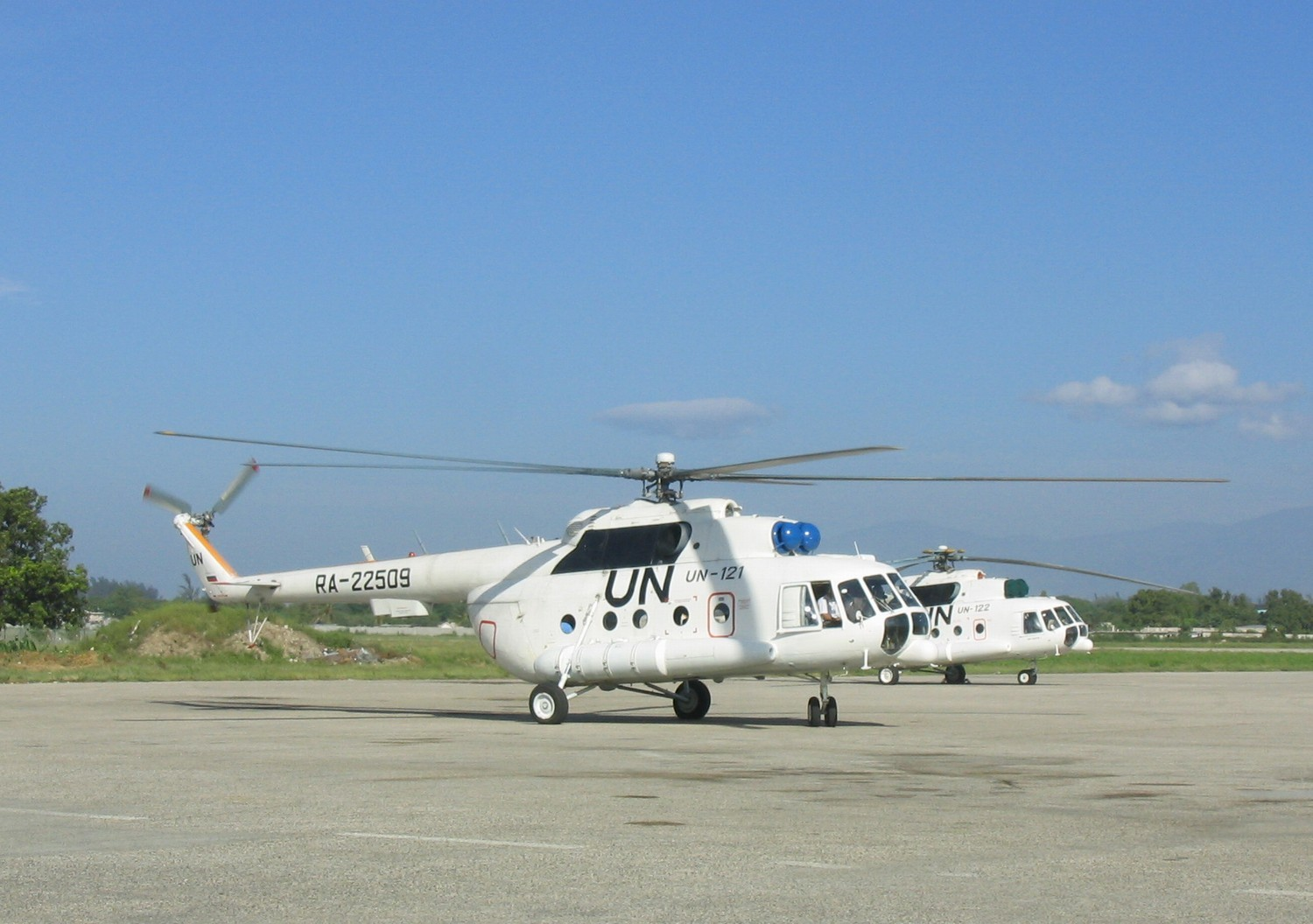 Two Mi-17 (Mi-8MTV1 in fact [1])